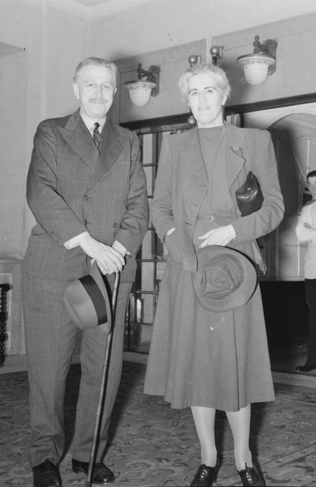 Colonel Georges-Phileas Vanier and Pauline Vanier.